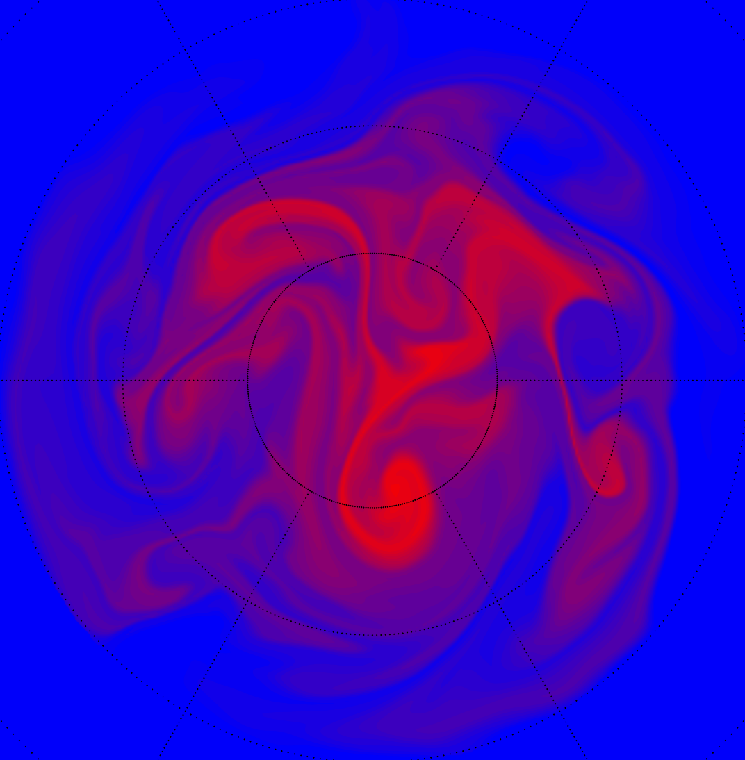 A two-dimensional, zonally-symmetric tracer advected in the Northern Hemisphere. Reference: Peter Mills (2004) "Following the Vapour Trail: a Study of Chaotic Mixing of Water Vapour in the Upper Troposphere." Master's Thesis, University of Bremen